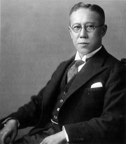 Baron Kishichirō Ōkura (1982–1963)